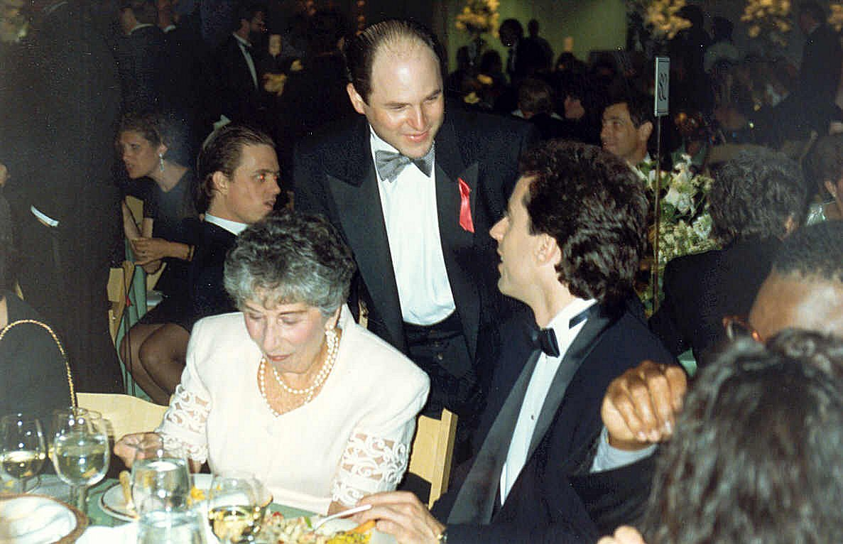 Photo taken at the 44th Emmy Awards 8/92- Permission granted to copy, publish or post but please credit "photo by Alan Light" if you can